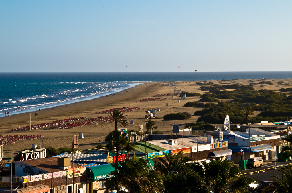 The Beach of Playa del Ingles with shopping center Anexo II